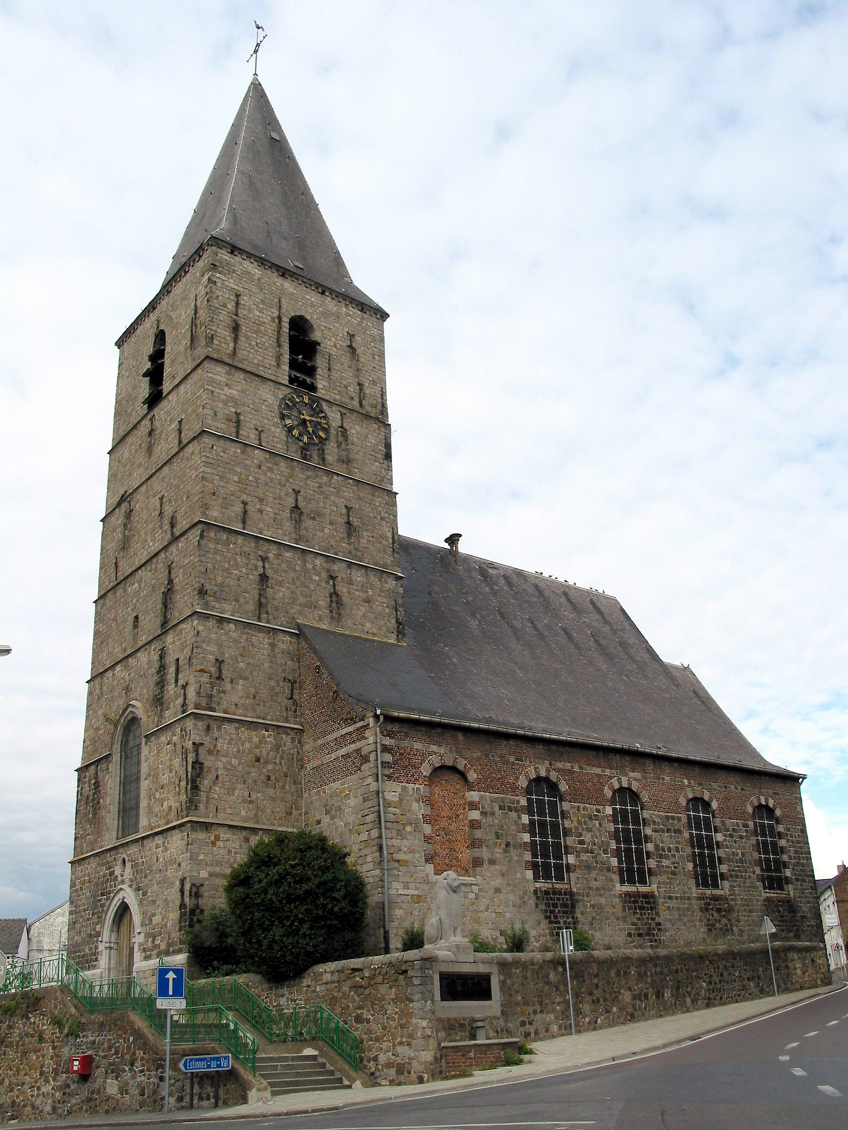 Estinnes-au-Mont (Belgium), the church of Saint-Remy (XVI-XVIIIth centuries).